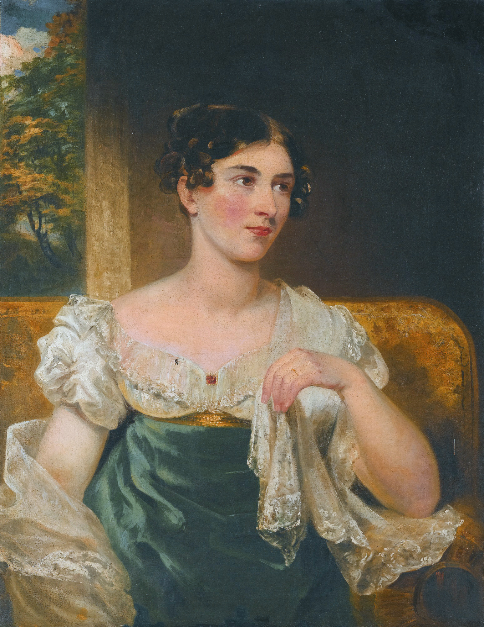 The Irish actress Harriett Constance Smithson (1800-1854) oil on canvas 91.5 x 71 cm